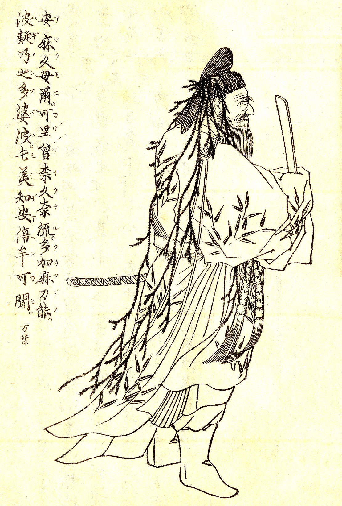 Ōnakatomi no Kiyomaro(大中臣清麻呂) was a Japanese court noble and poet in Nara period.